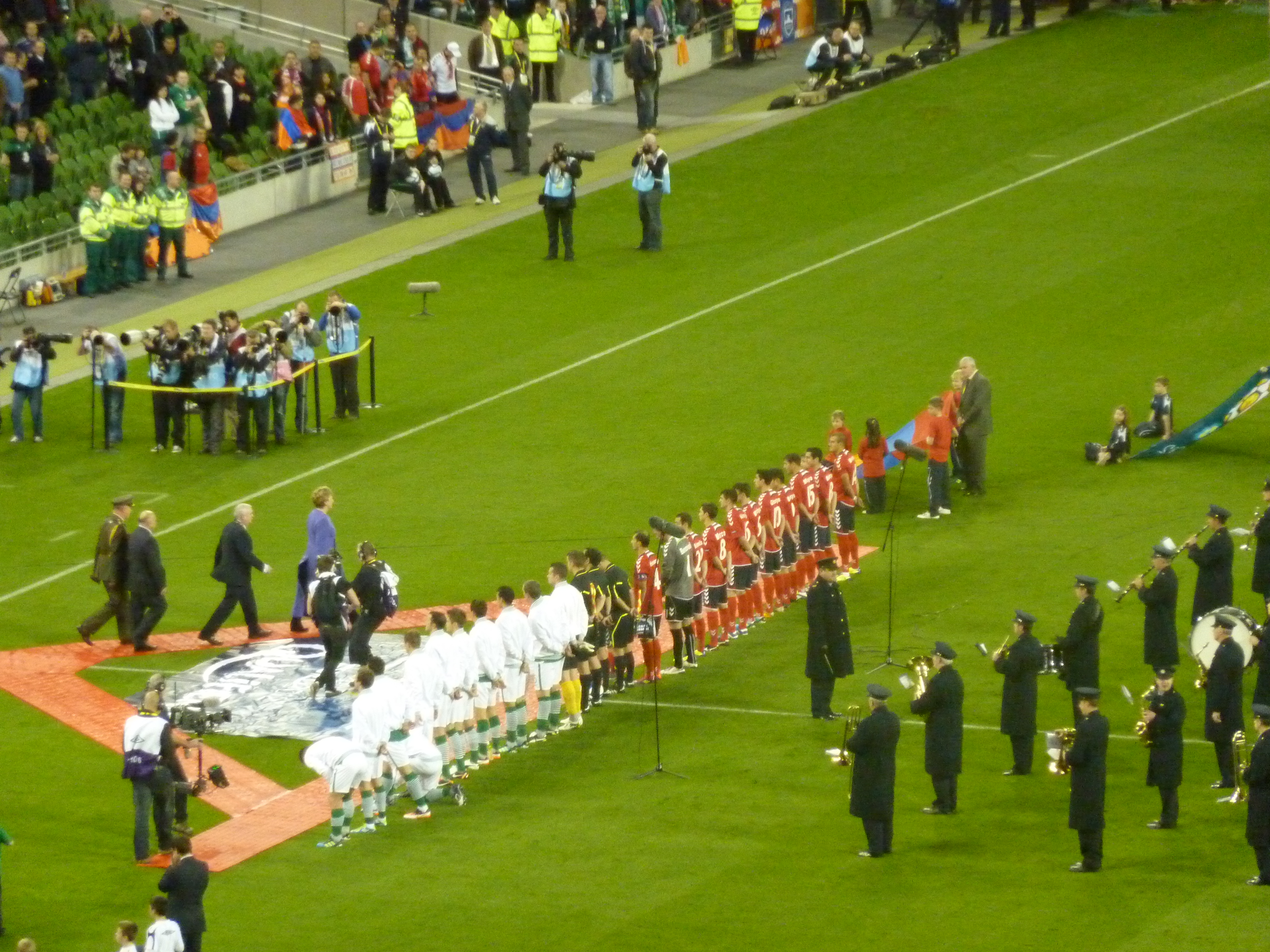 Dublin, Euro 2012 qualifying group B. Ireland won 2:1 (1:0).